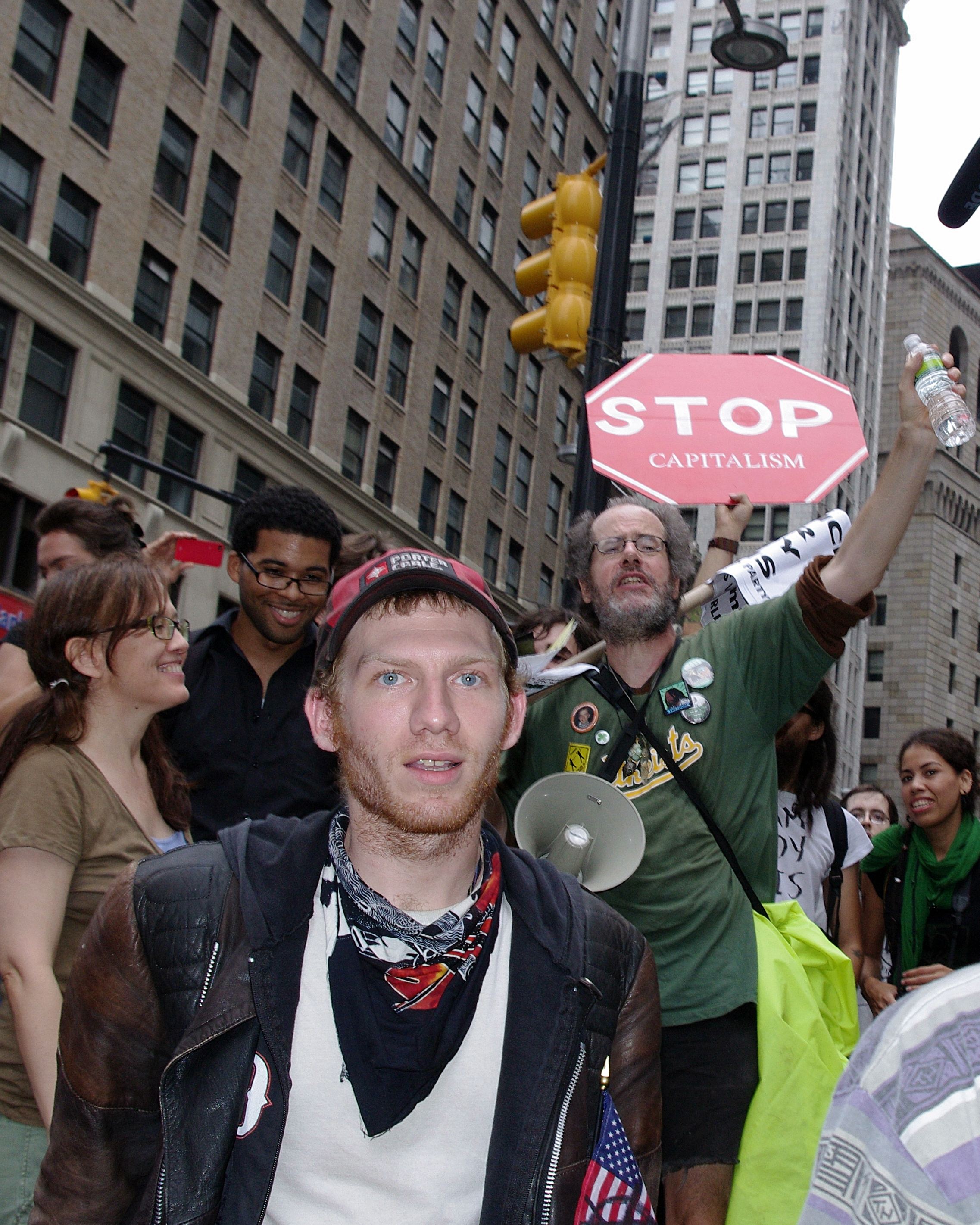 The protest event Occupy Wall Street in Zuccotti Park in New York, on Day 8, September 24. Wall Street has been barricaded off to the public for over a week.